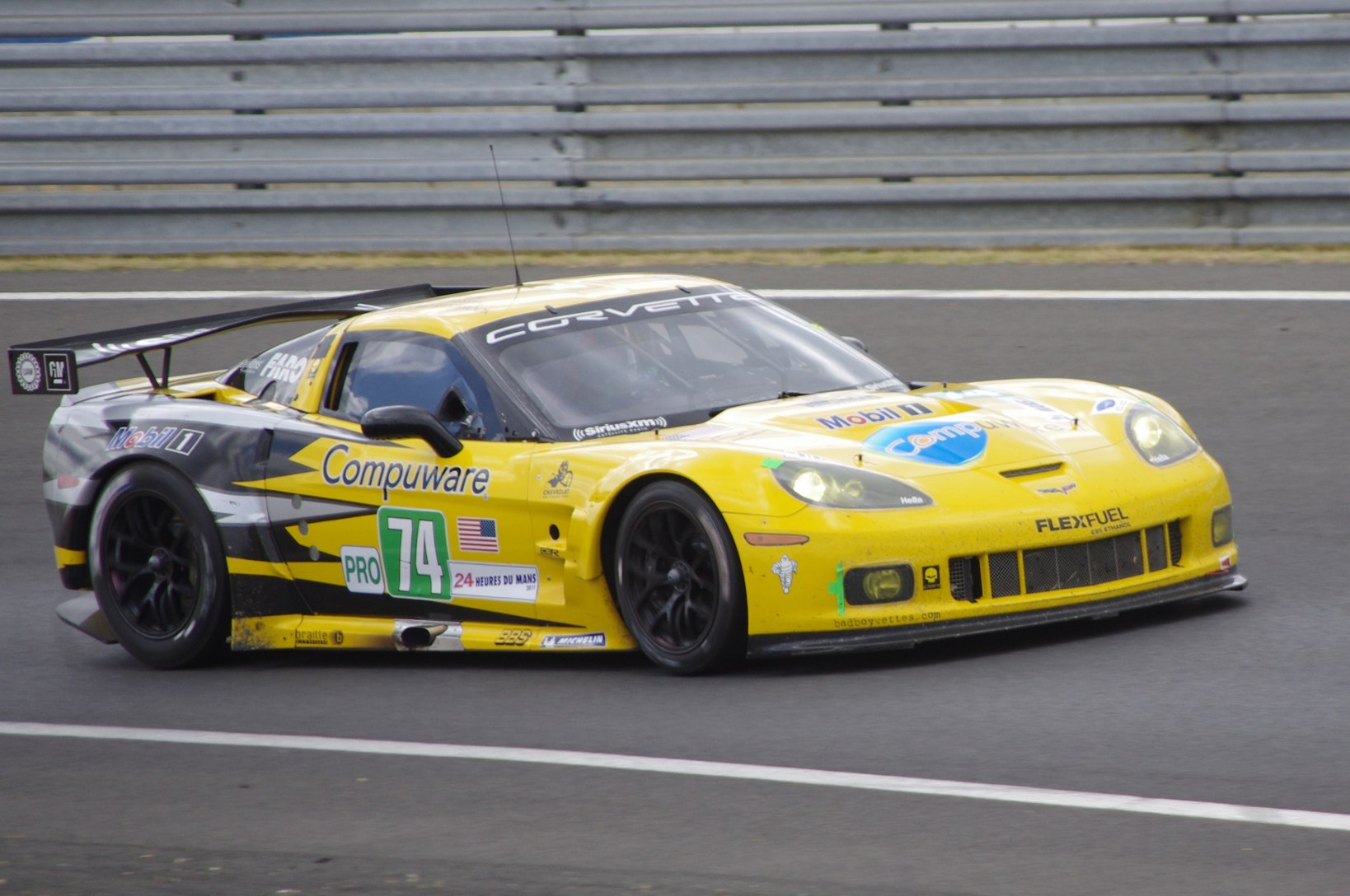 Corvette Racing's Corvette C6 ZR1 Driven by Oliver Gavin, Jan Magnussen and Richard Westbrook. Le Mans 2011